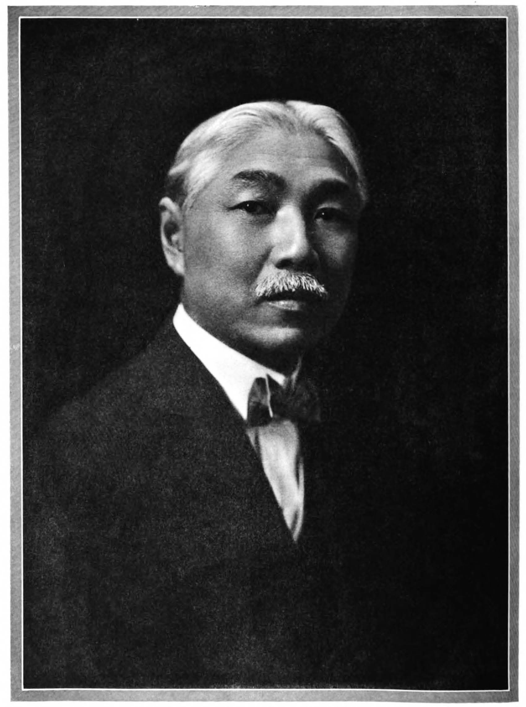 Portrait of Kushibiki Yumindo from California's Magazine 2 (1915)